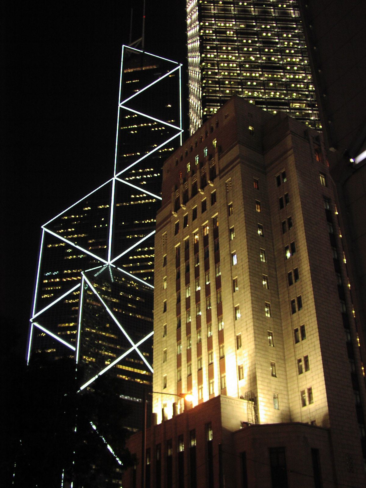 Bank of China building, central_past&new